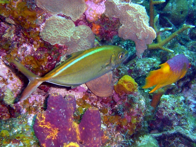 A bar jack, Carangoides ruber, foraging alongside a small damselfish. Licensed by Spanish Government under a cc-by-sa 2.5 license